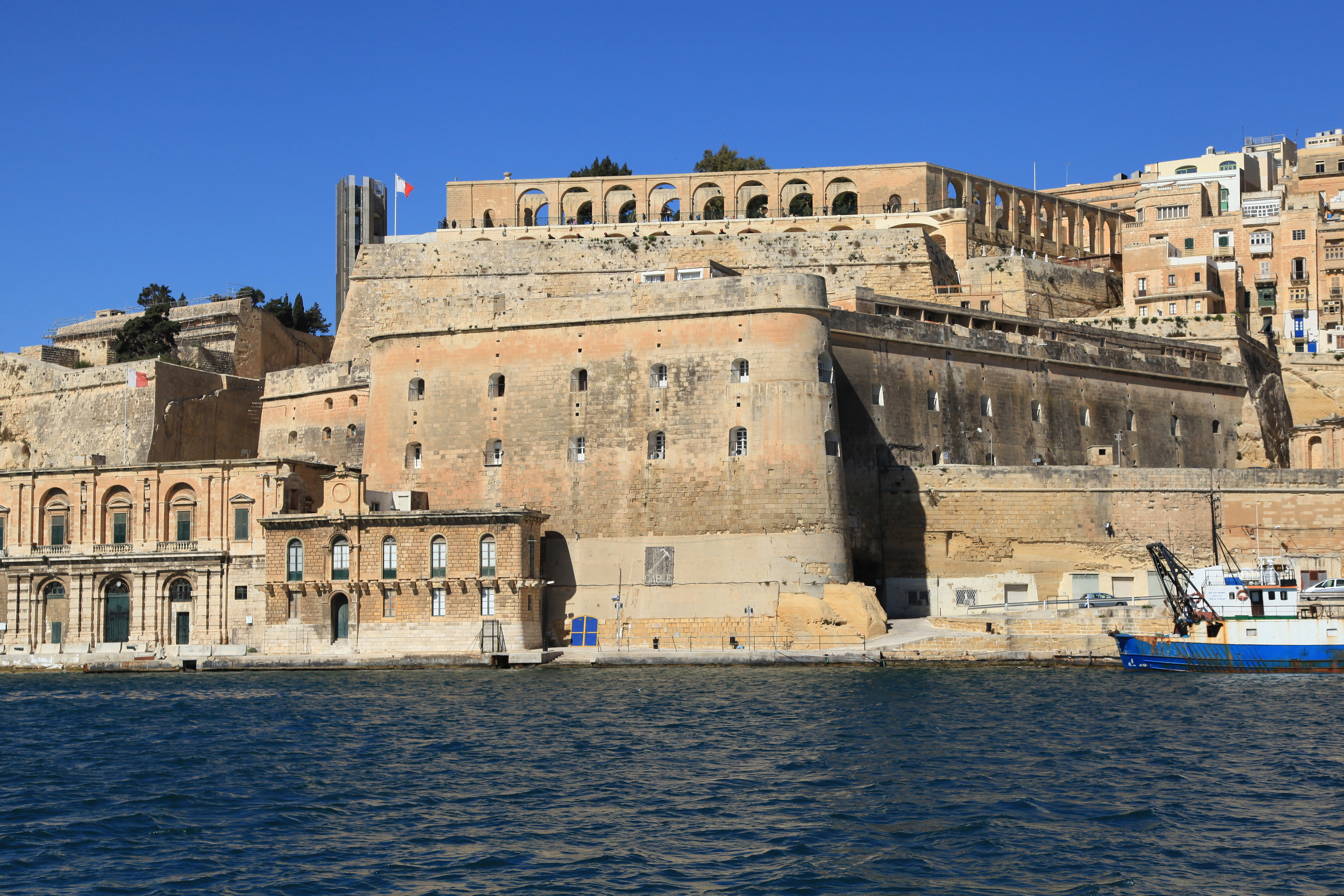 View from a Malta sightseeing two harbours cruise boat to Xatt Lascaris with the Customs House and the SS Peter and Paul Bastion with the Upper Barrakka Gardens on top in Valletta, Malta